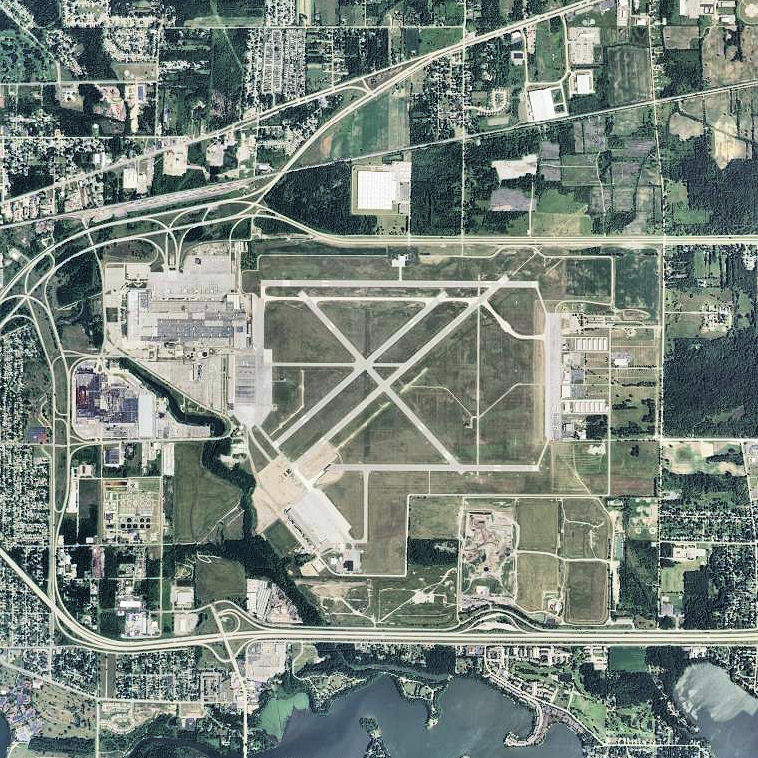 USGS digital orthophoto of Willow Run Airport in Michigan